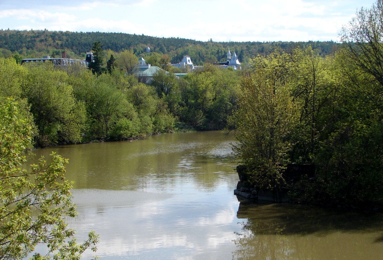 Rigaud River at Rigaud, Quebec, Canada